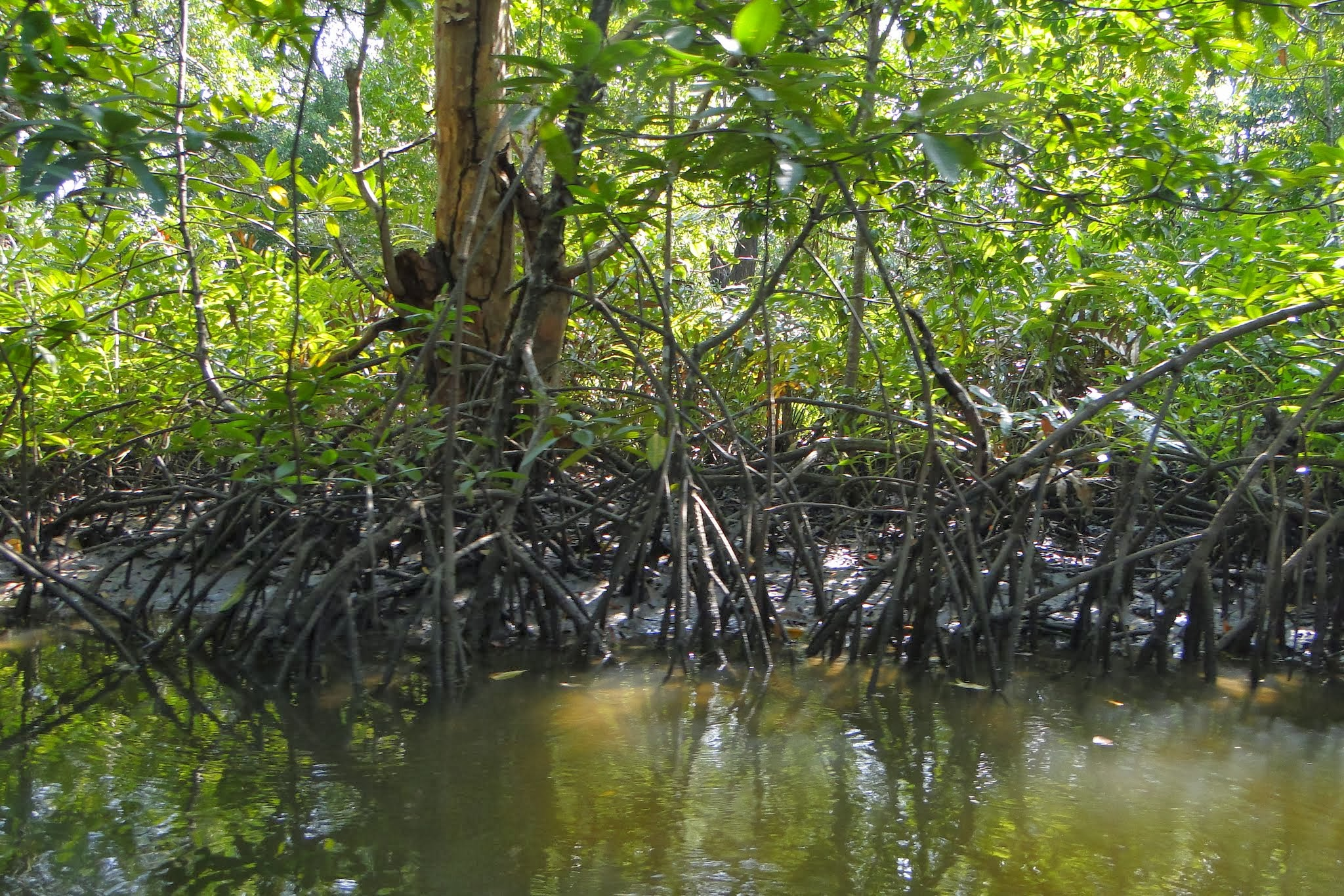 Mangroves (Cambodia)